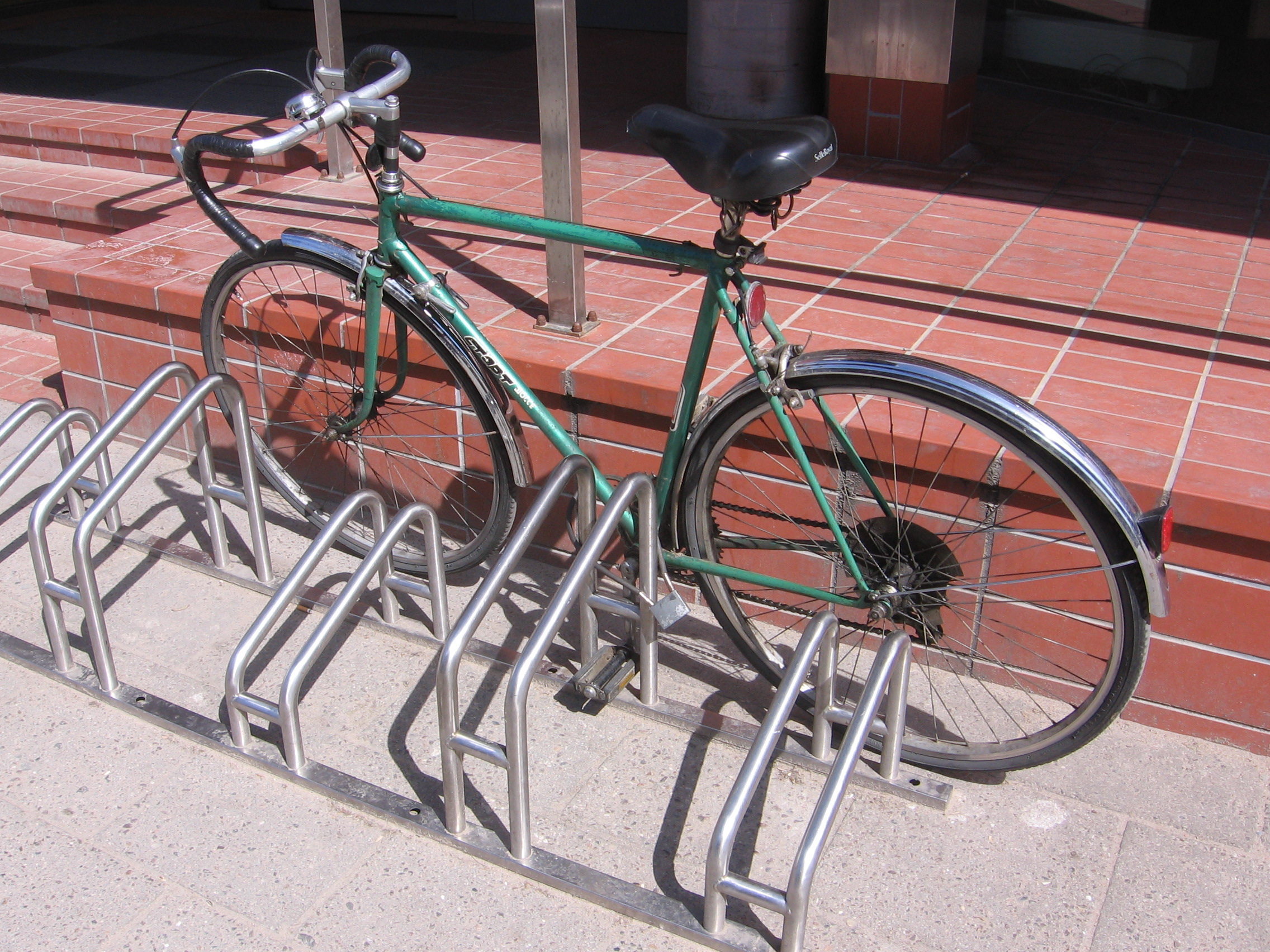 Start-Shosse Bicycle, that is manufactured at the Kharkov Bicycle Plant since Soviet times.